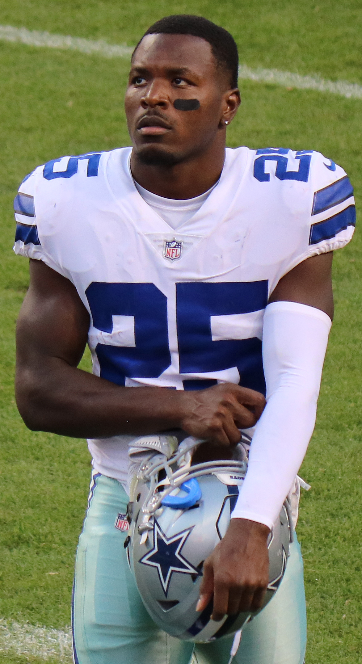 Xavier Woods, a player on the National Football League.